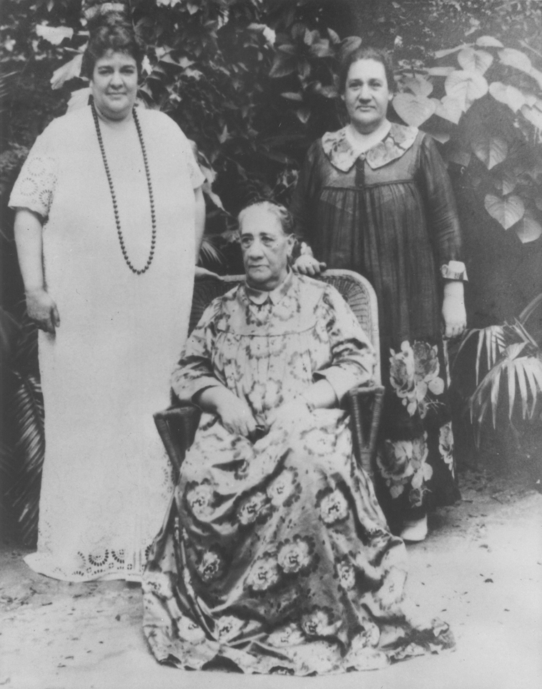 Abigail Wahiʻikaʻahuʻula Campbell Kawānanakoa (1882—1945) with Tahitian royalty, Queen Dowager Marau (1860—1934) and her daughter Princess Teri'i-nui-o-Tahiti (1879—1961).